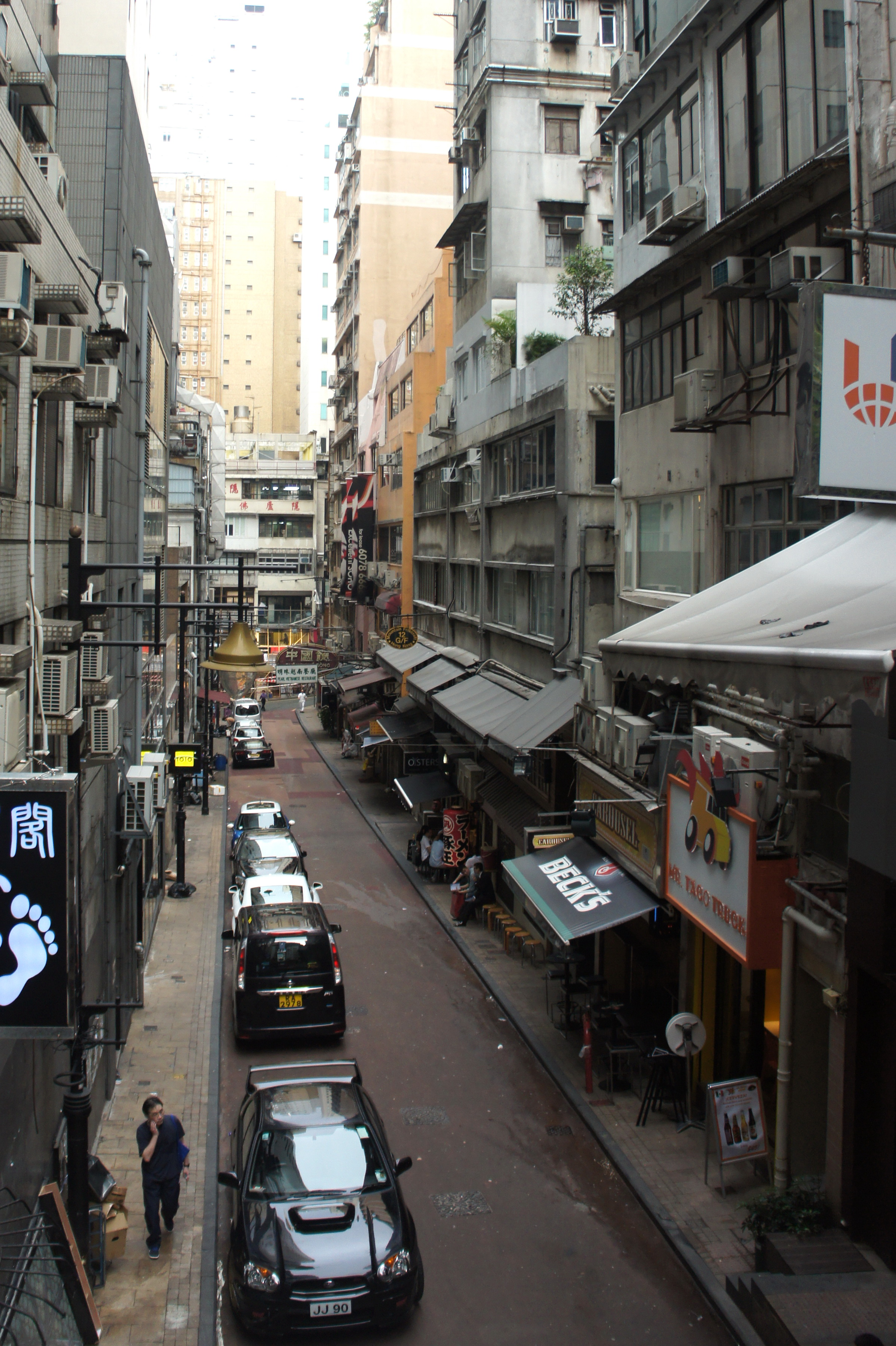 Wo On Lane, Central, Hong Kong.